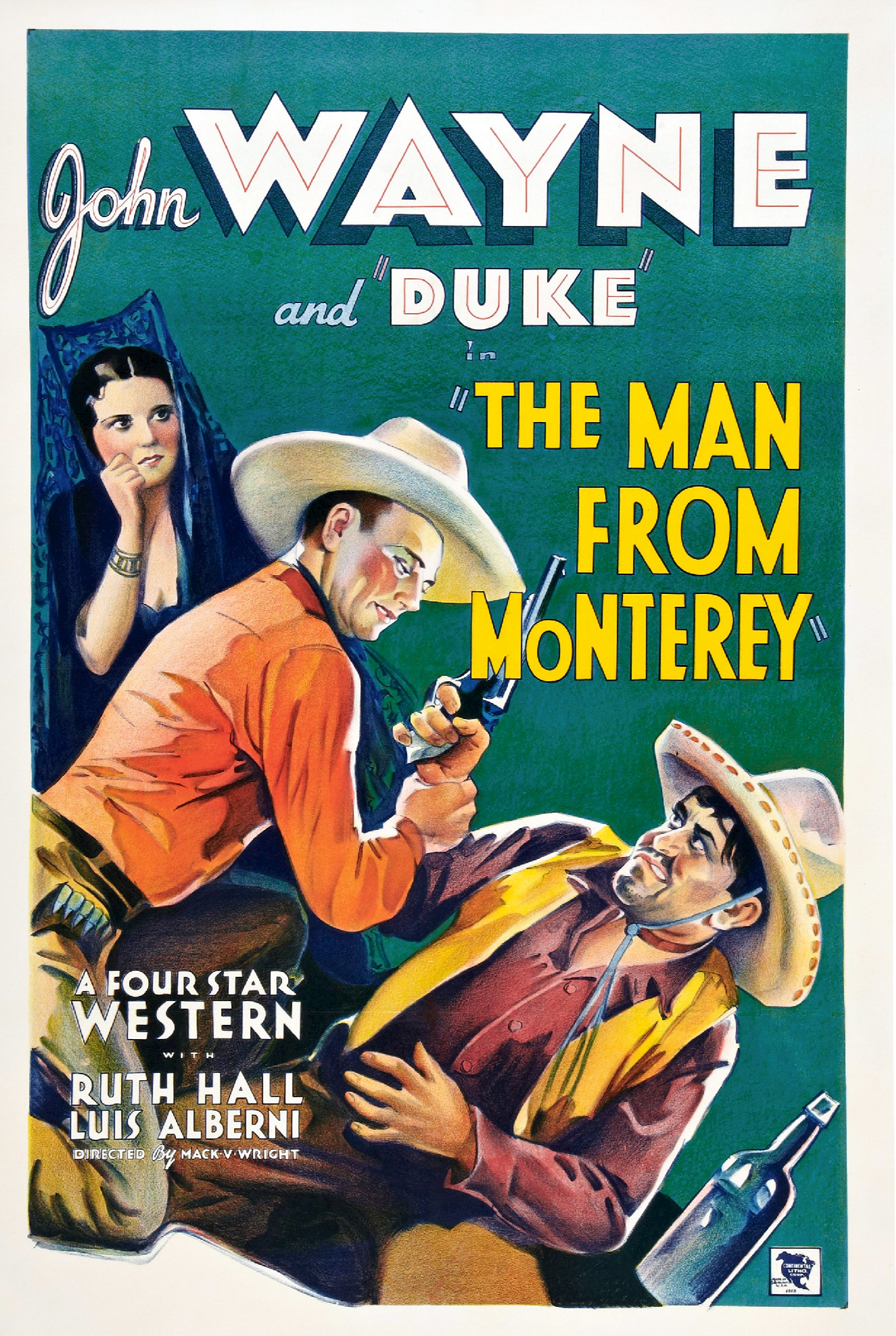 Poster for the 1933 film The Man From Monterey. The item has no copyright markings on it as can be seen in the links above.